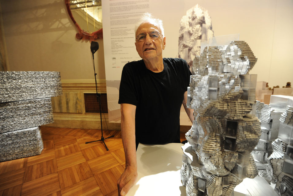 Frank O. Gehry - Parc des Ateliers on Flickr